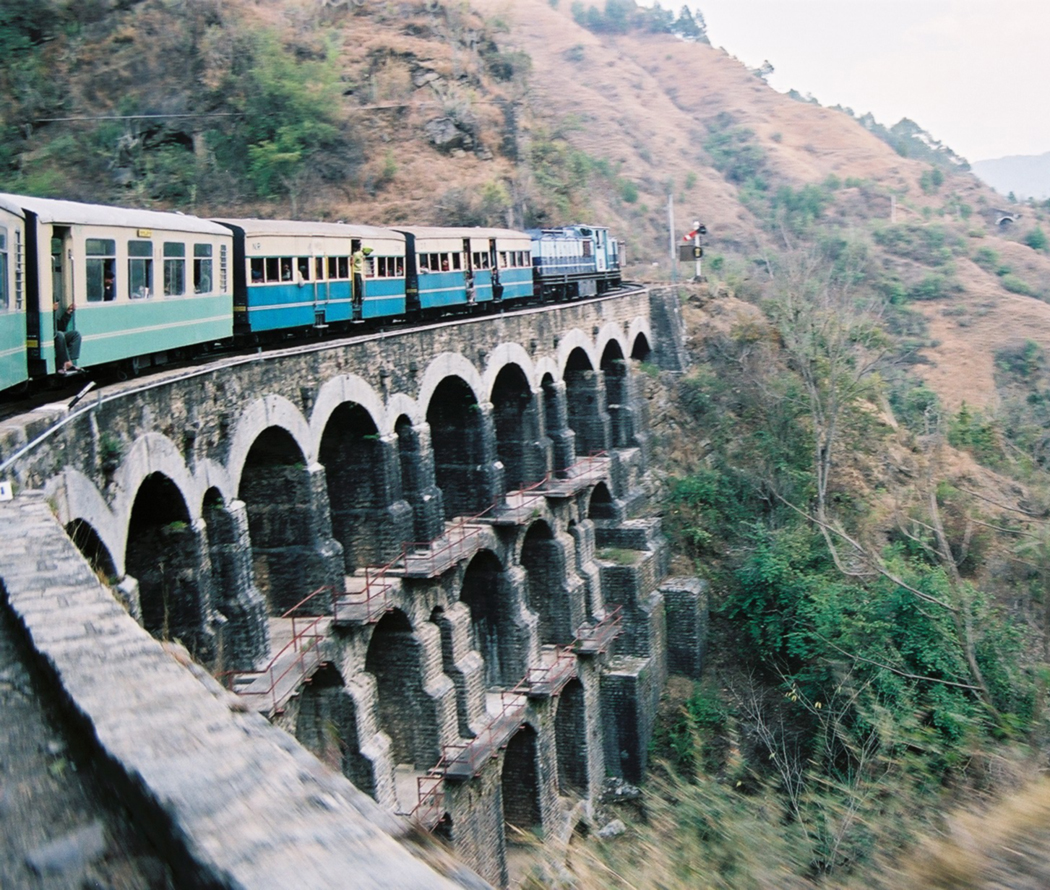 Kalka-Simla Railway. A typical passenger train on one of the line's big bridges. The locomotive is YDM3 No.182. 12th February 2005 Photographer - A.M.Hurrell Camera - Minolta X700 (35mm film) Modified - Scanned by film developer. File size and definition changed using Adobe Photoshop 5.0LE